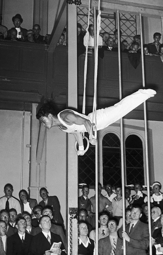 The Japanese Gymnast Hikoroku Arimoto On July 28, 1936, During The Olympic Games Of Berlin.